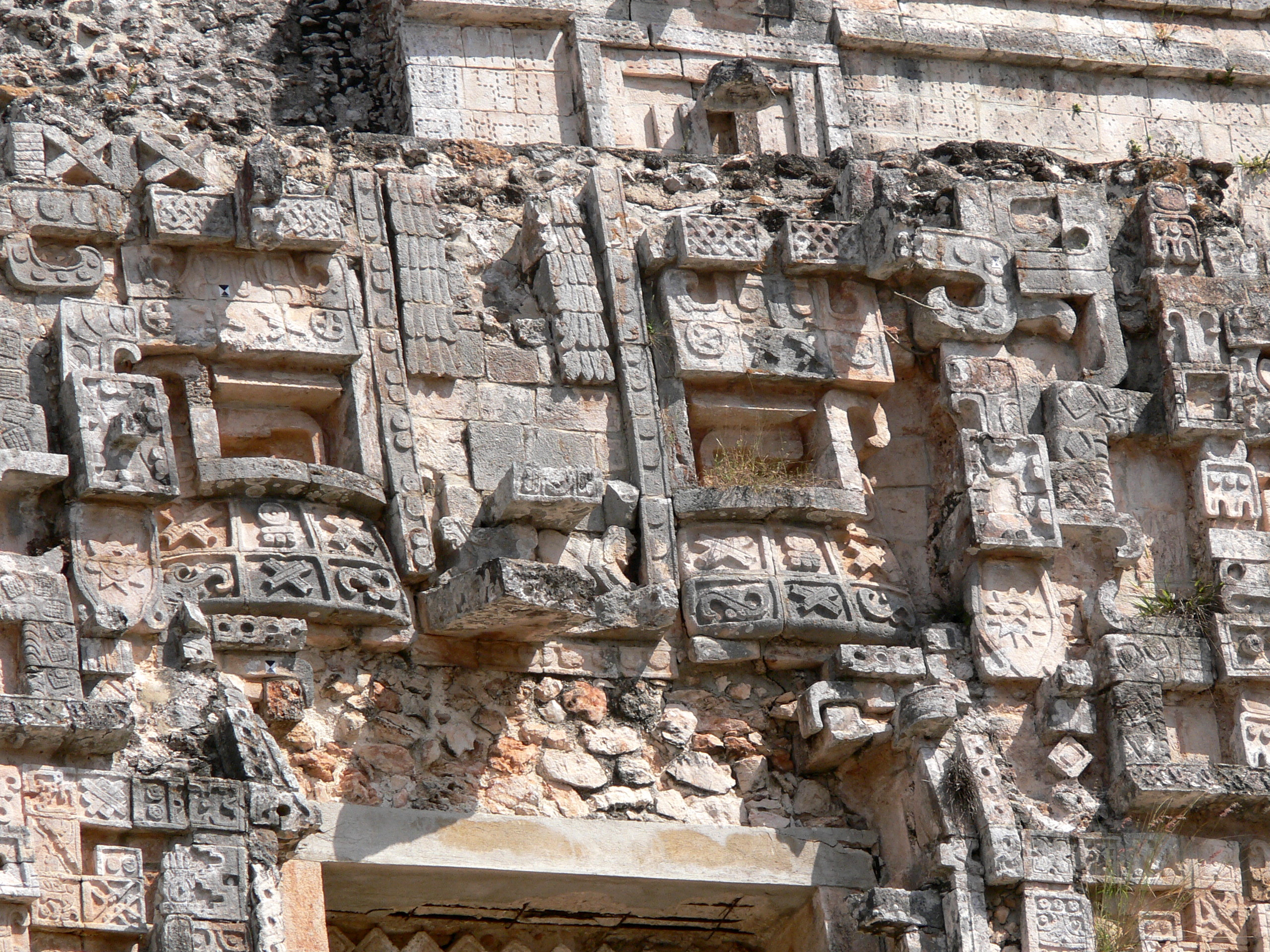 Uxmal ( Yucatan ). Pyramid of the magician: Ornaments at the temple on top of the pyramid.